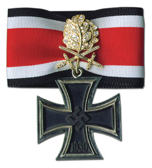 Knight's Cross of the Iron Cross with golden Oak Leaves, Swords and Diamonds.